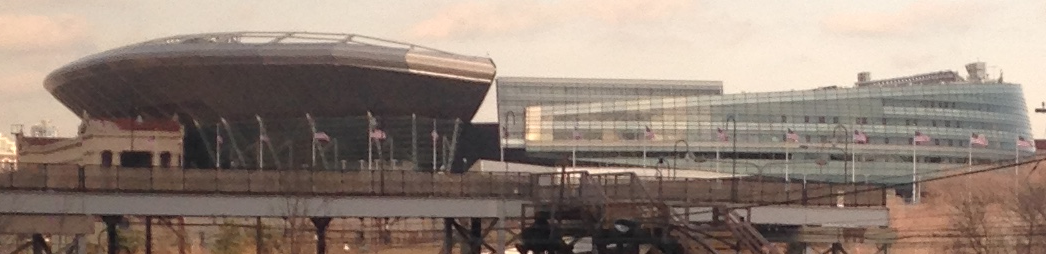 Soldier Field